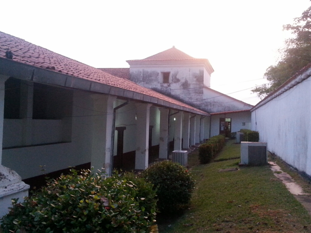 ANTIGUO CONVENTO DE MONJES FRANCISCANOS Y EN LA ACTUALIAD ES LA SEDE DE VICE-RECTORADO DE LA UNIVERSIDAD EXPERIMENTAL DE LOS LLANOS OCCIDENTALES EZEQUIEL ZAMORA, UNELLEZ - GUANARE - PORTUGUESA